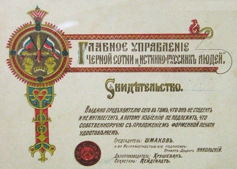 A mock certificate. It roughly translates as: THE MAIN GOVERNING BODY OF THE BLACK HUNDRED AND "TRULY RUSSIAN PERSONS". Certificate Issued to the holder of this [certificate], to certify that he is not a student nor an intellectual, and hence is not fit for beating, this we ourselves affirm with the affixure of the form stamp. Chairman: SHMAKOV. Due to his illiteracy, signed by Privatdozent: NIKOLSKY. Clerk: KRUSHEVAN. Secretary: NEIGARDT.